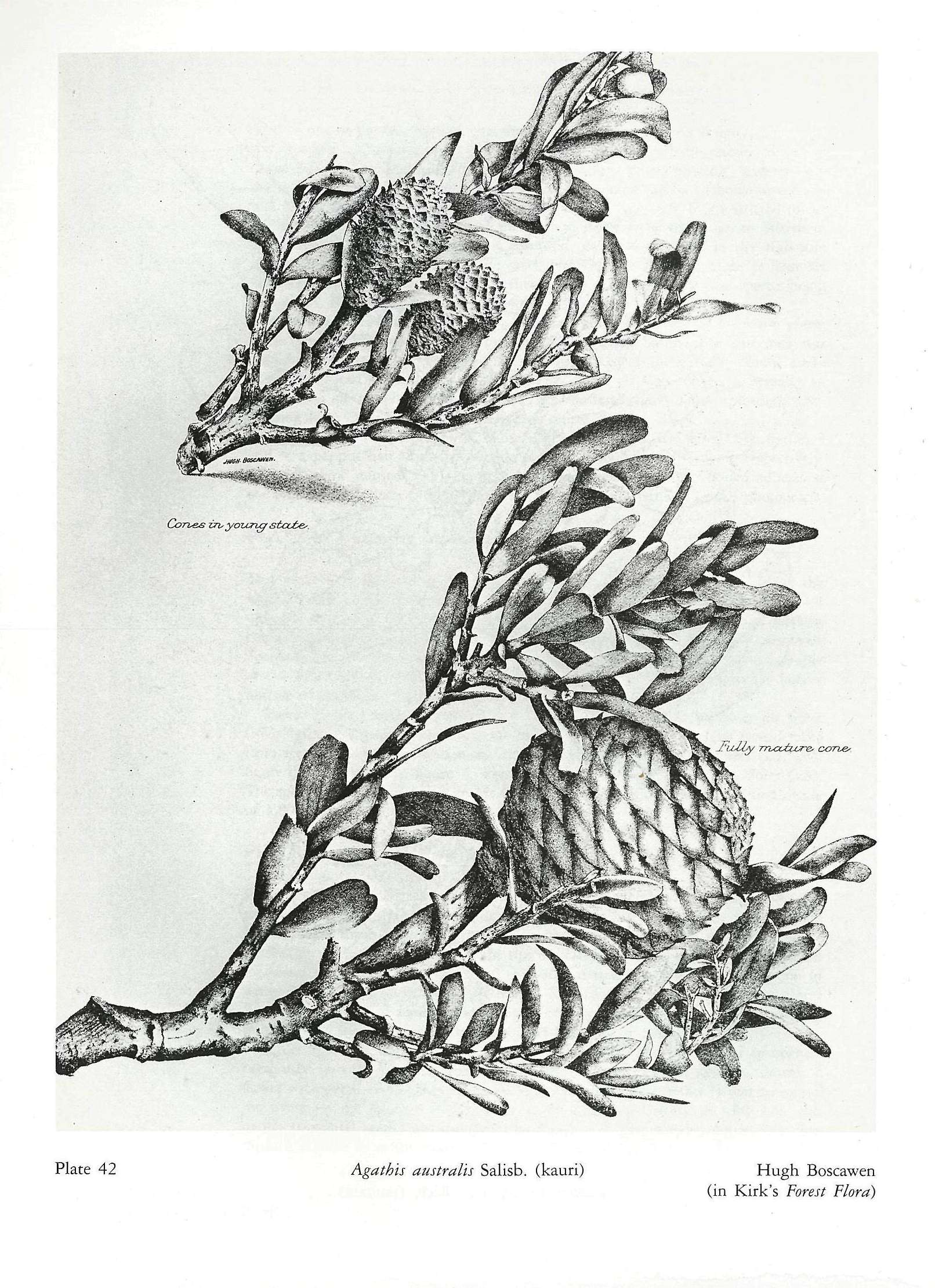 Plate 42 Agathis australis Salisb. (kauri), John Hugh Boscawen (1851-1937) (in Kirk's Forest Flora)